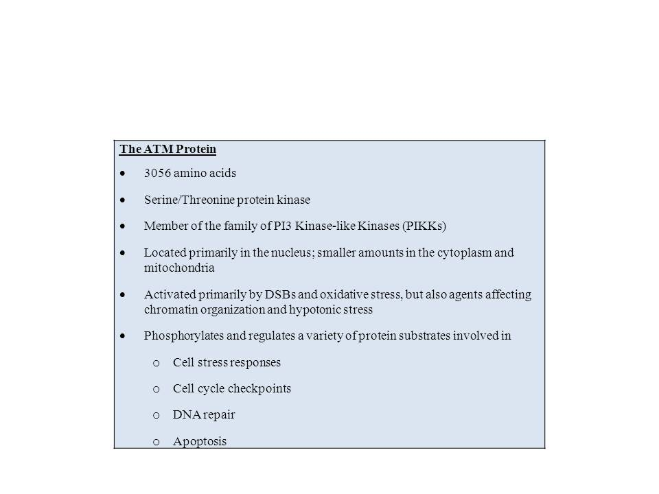 This table describes various characteristics of the ATM protein.